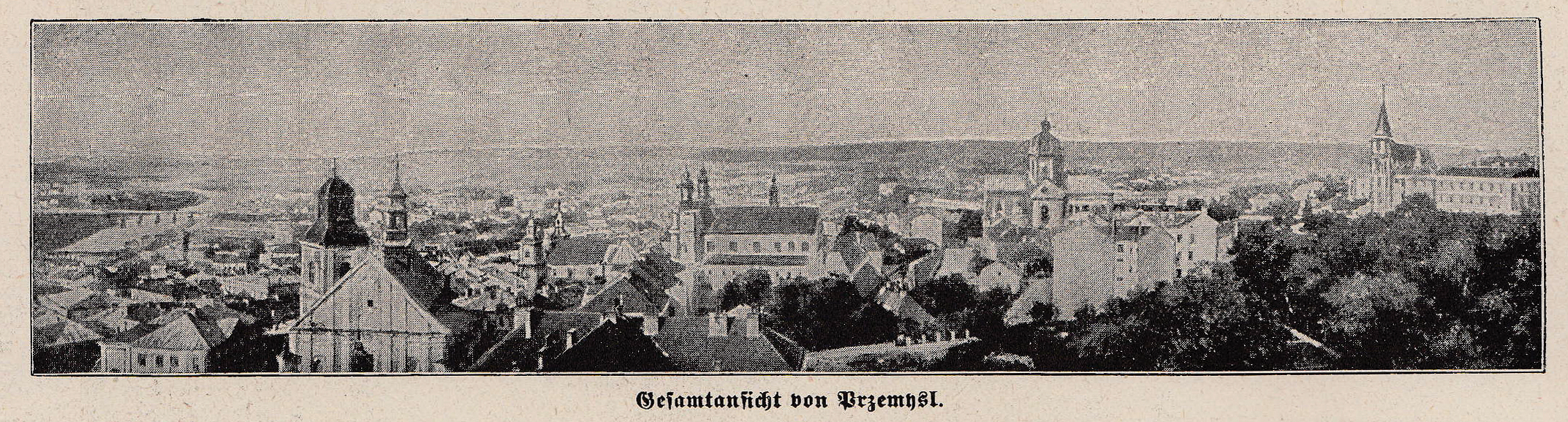 Der Krieg 1914-19 in Wort und Bild, published 1919